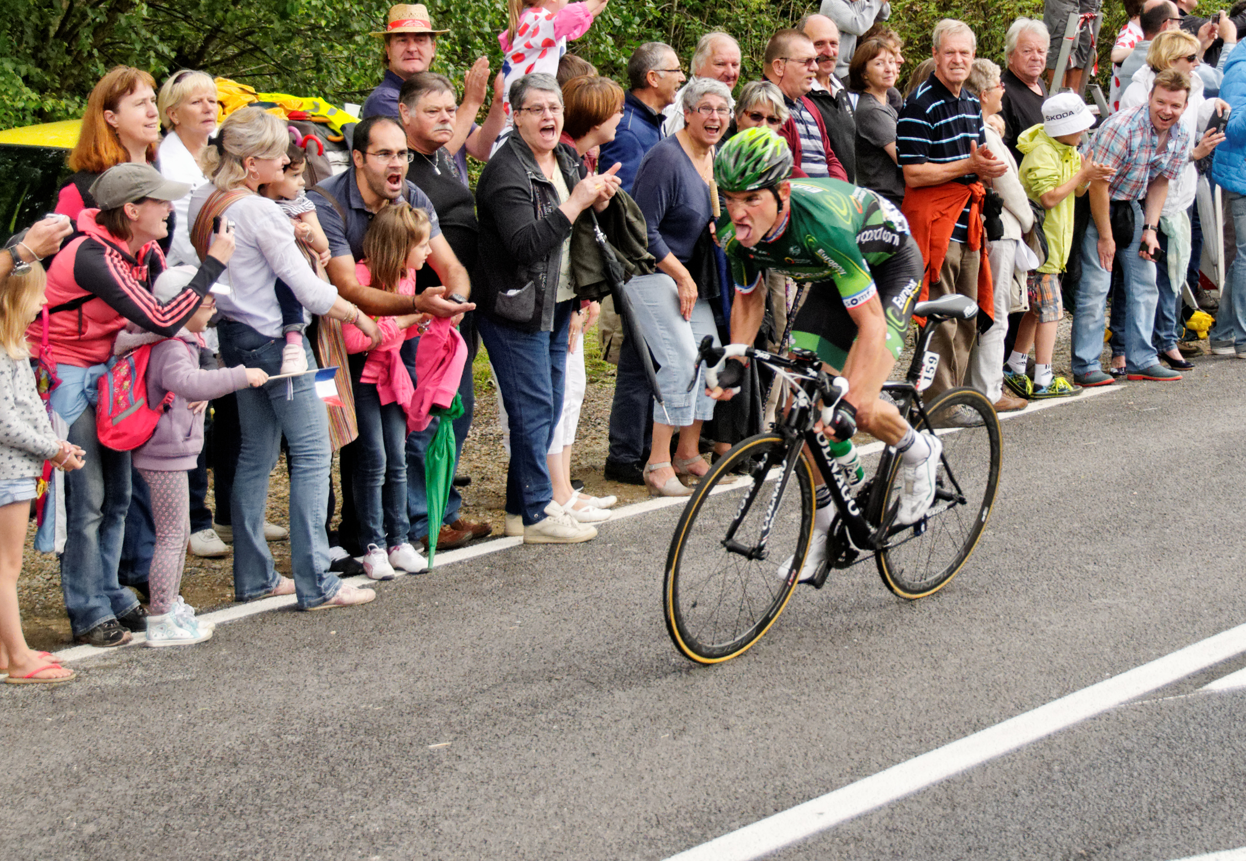 Personality rights warningAlthough this work is freely licensed or in the public domain, the person(s) shown may have rights that legally restrict certain re-uses unless those depicted consent to such uses. In these cases, a model release or other evidence of consent could protect you from infringement claims.